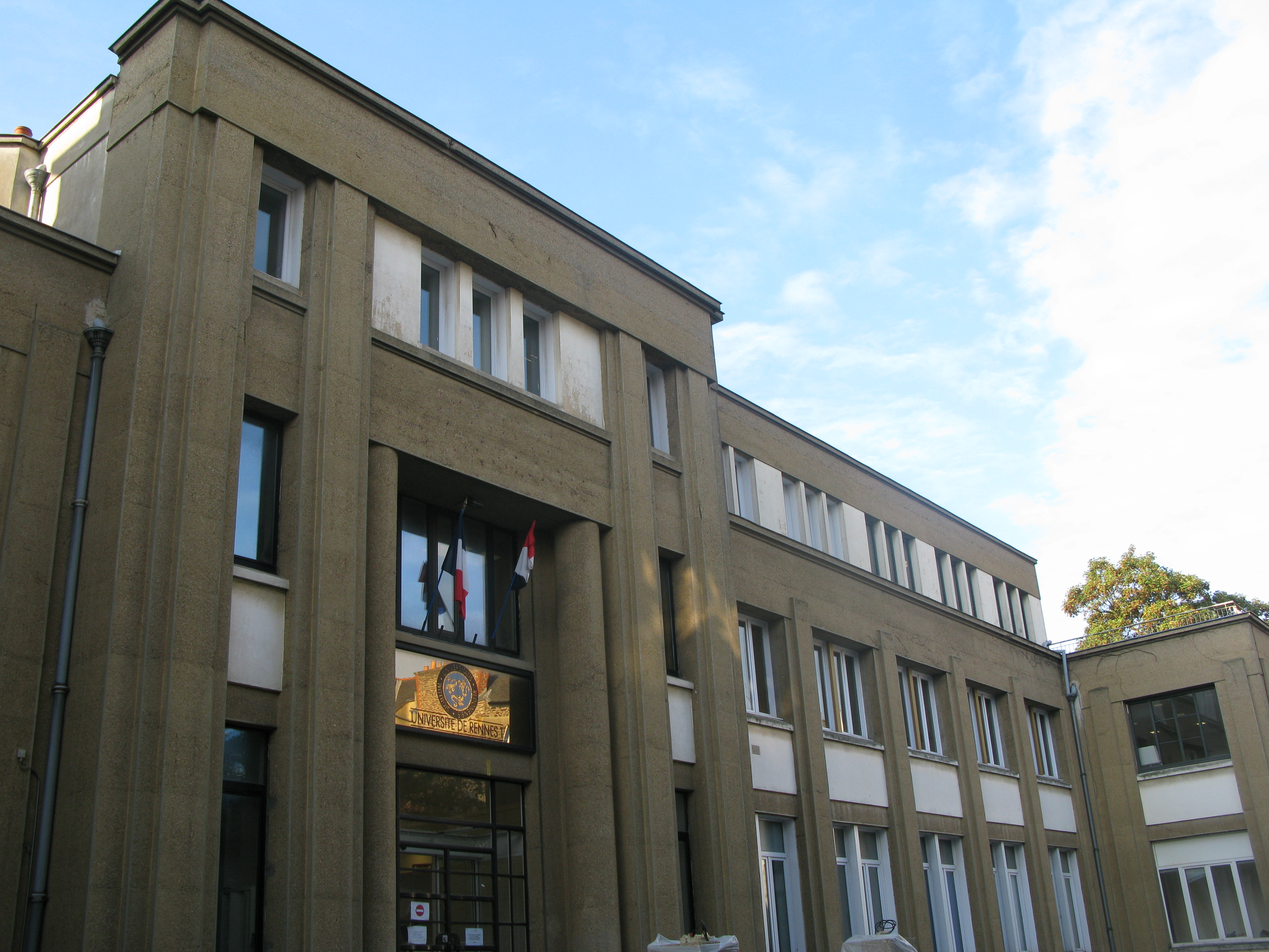 Head office of Rennes 1 University in Rennes, France. Building was previously used by Yves Milon (former mayor of Rennes) as a geology museum.